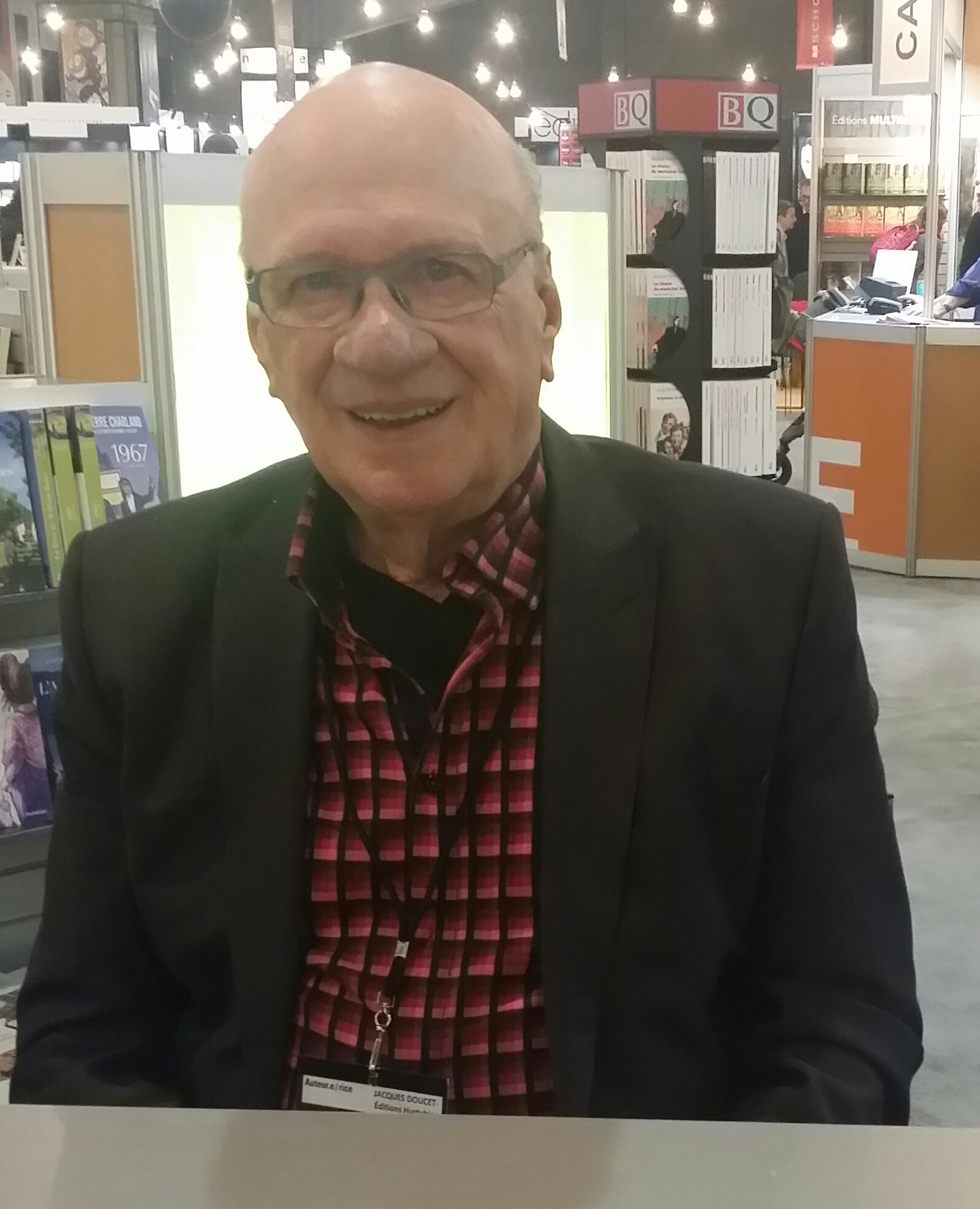 Jacques Doucet photographed photographed in Montréal , Québec, Canada at the Salon du livre de Montréal 2018.